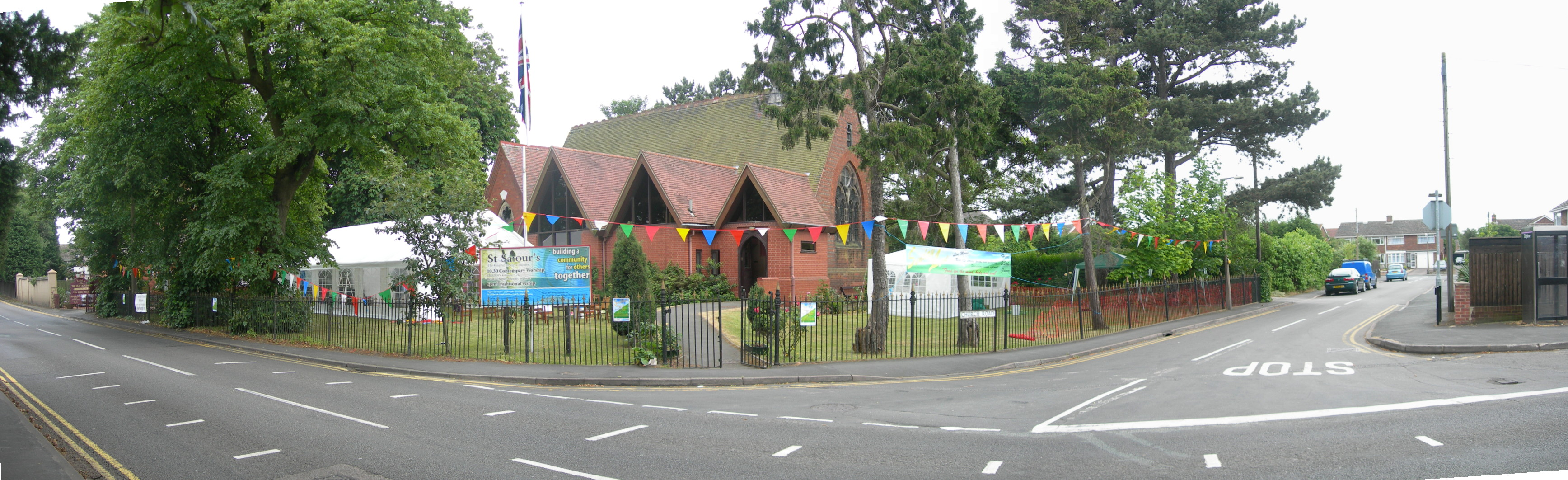 St Saviour's parish church, Main Street, Branston, Staffordshire, seen from the northwest